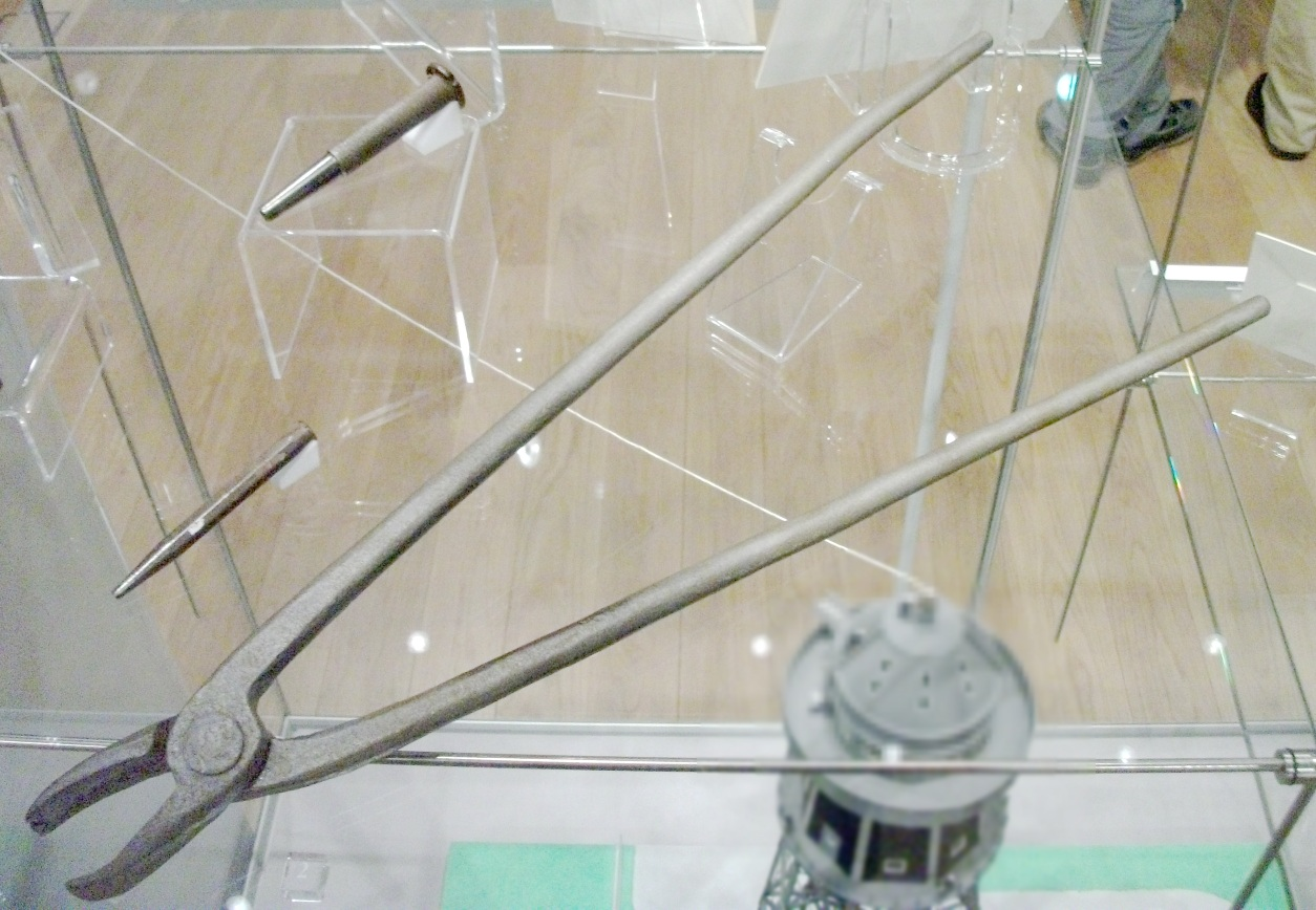 Furnace tongs used in building airships at Cardington in the 1920s, plus 2 small hand riveting tools used for the same. On display in Bedford Museum's R100/R101 exhibition. (Note:- the image has been adjusted using the GIMP.)